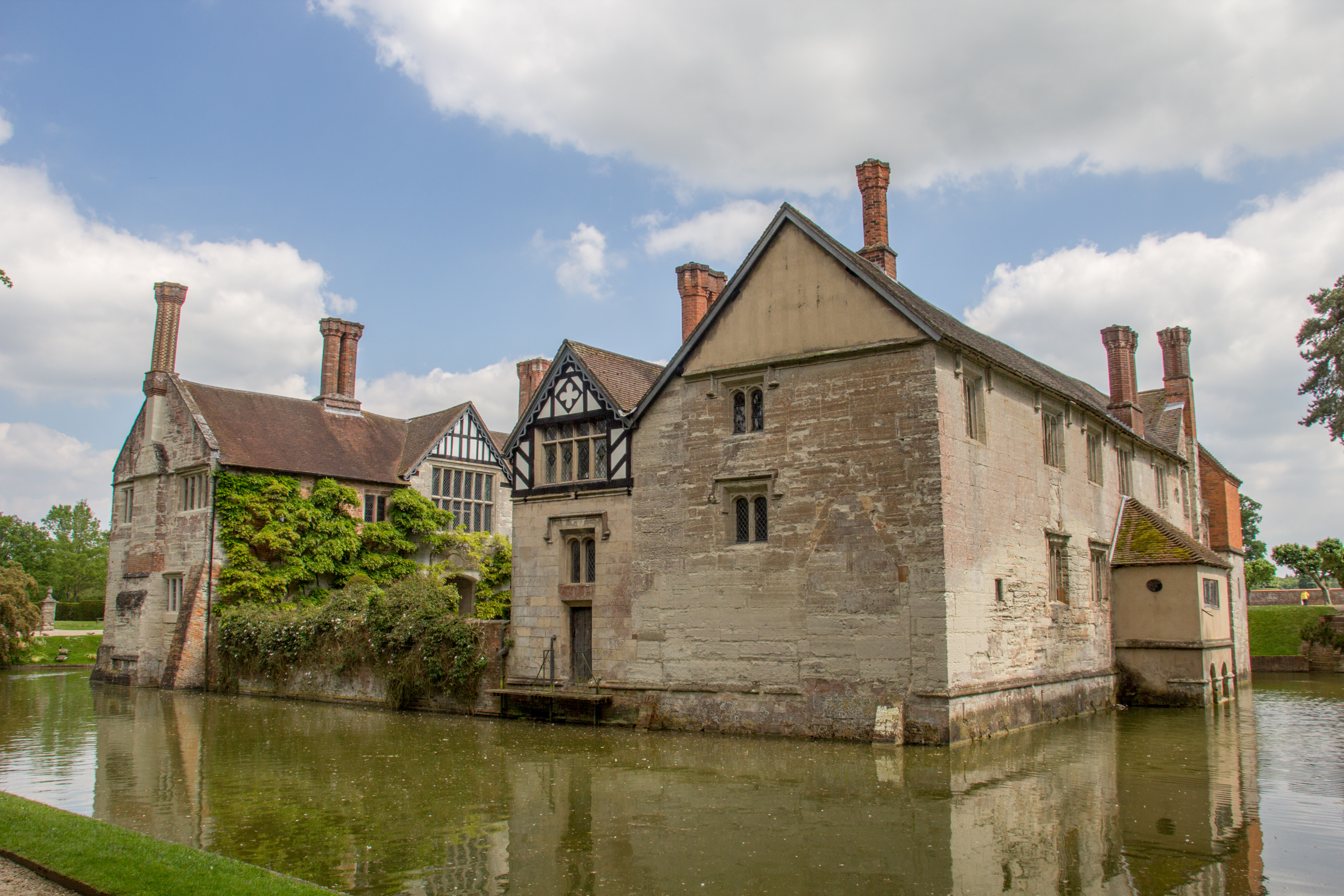 Baddesley Clinton, a National Trust property in Warwickshire, UK.